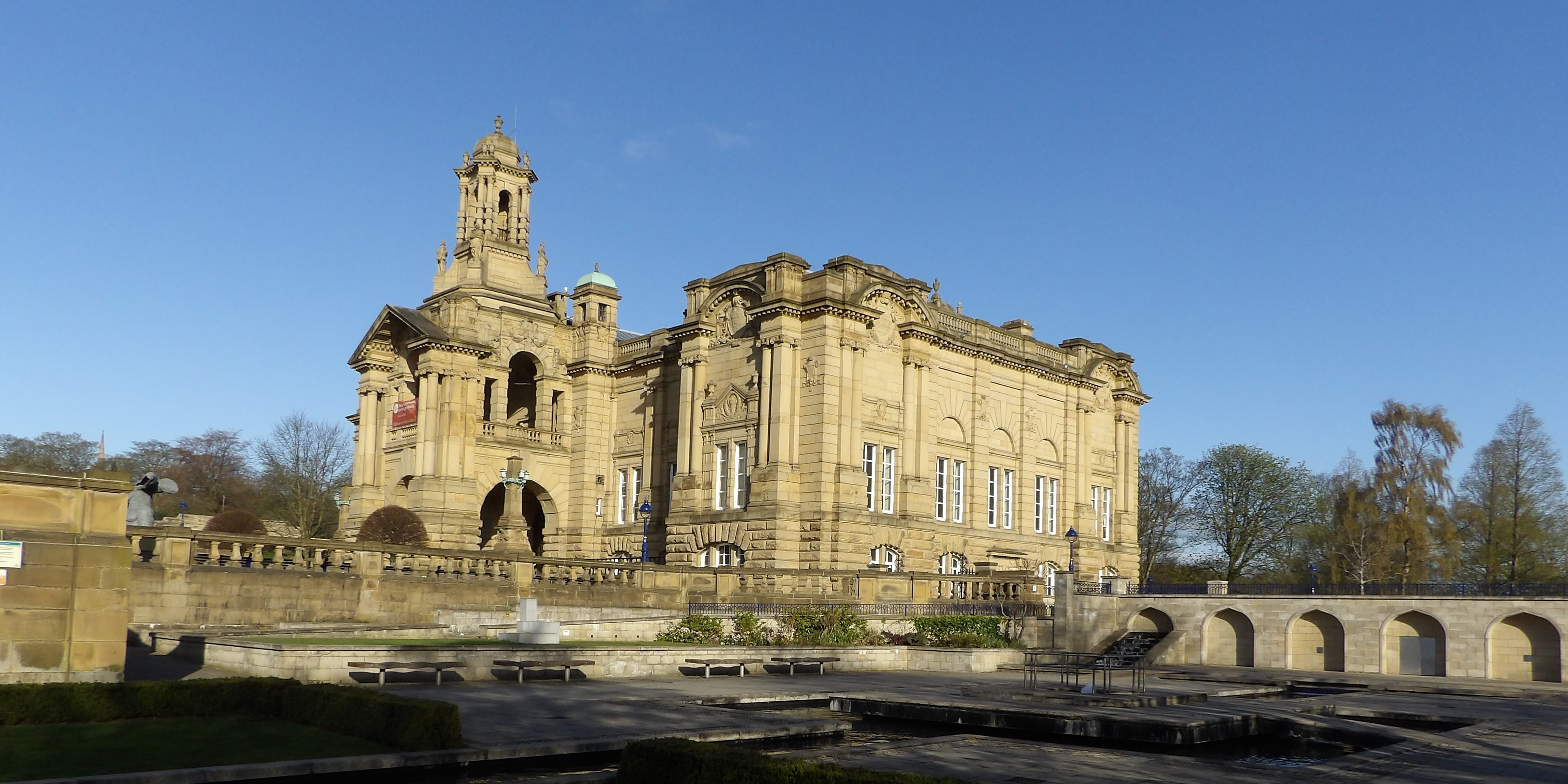 A view of Cartwright Hall in Lister Park, Bradford. The photo was taken from the Mughal-style Garden below and southeast of the house.